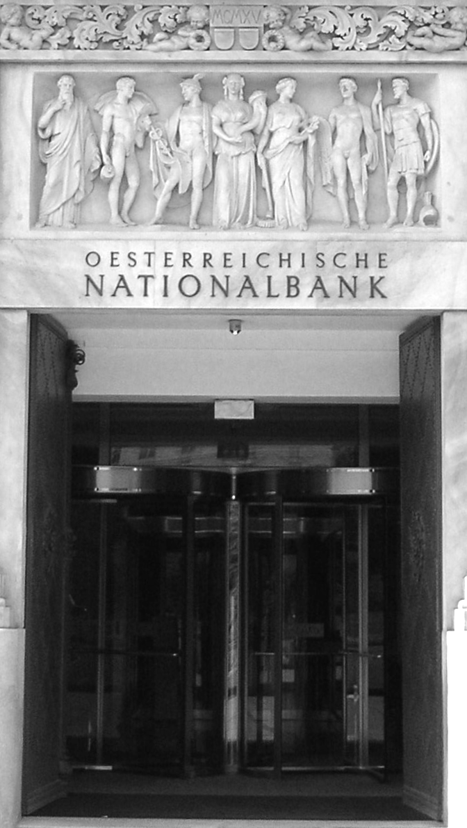 Portal of Austrian National Bank (Oesterreichische Nationalbank) in Vienna